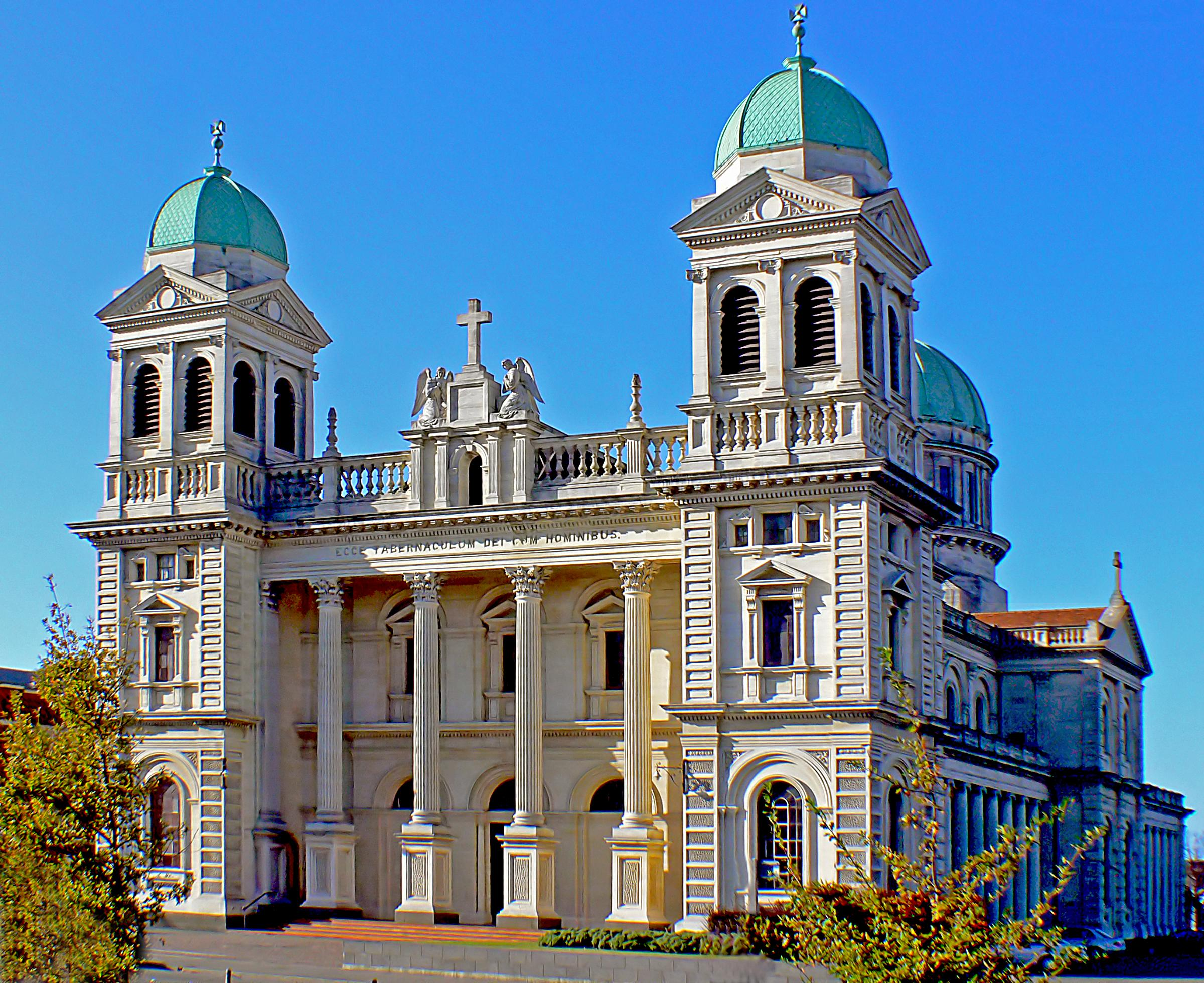 The Cathedral of the Blessed Sacrament (popularly known as the Christchurch Basilica is located in the city centre of Christchurch, New Zealand. It is the mother church of the Roman Catholic Diocese of Christchurch and seat of the Bishop of Christchurch. It was designed by architect Francis Petre. The Cathedral was closed after the 4 September 2010 Canterbury earthquake. The February 2011 Christchurch earthquake collapsed the two bell towers at the front of the building and destabilised the dome. The dome was removed and the rear of the Cathedral was demolished. A decision on the future of the building remains to be made